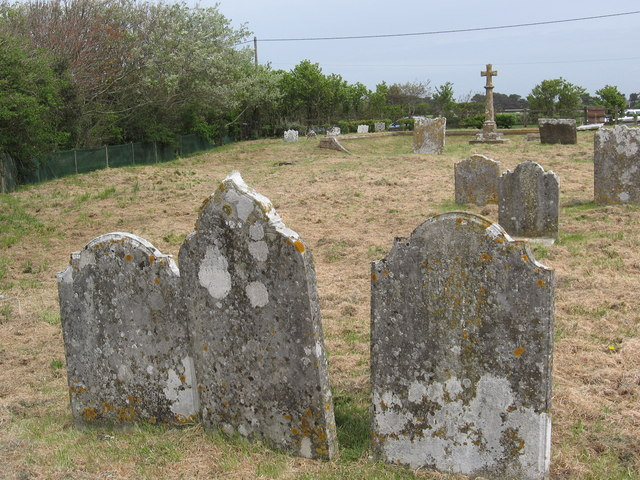 Hordle Parish Church - the original site The church was on this site from 1080 to 1830. It was moved two miles inland, closer to the expanding population in the north of the parish following enclosure.